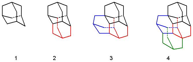 Diamondoids